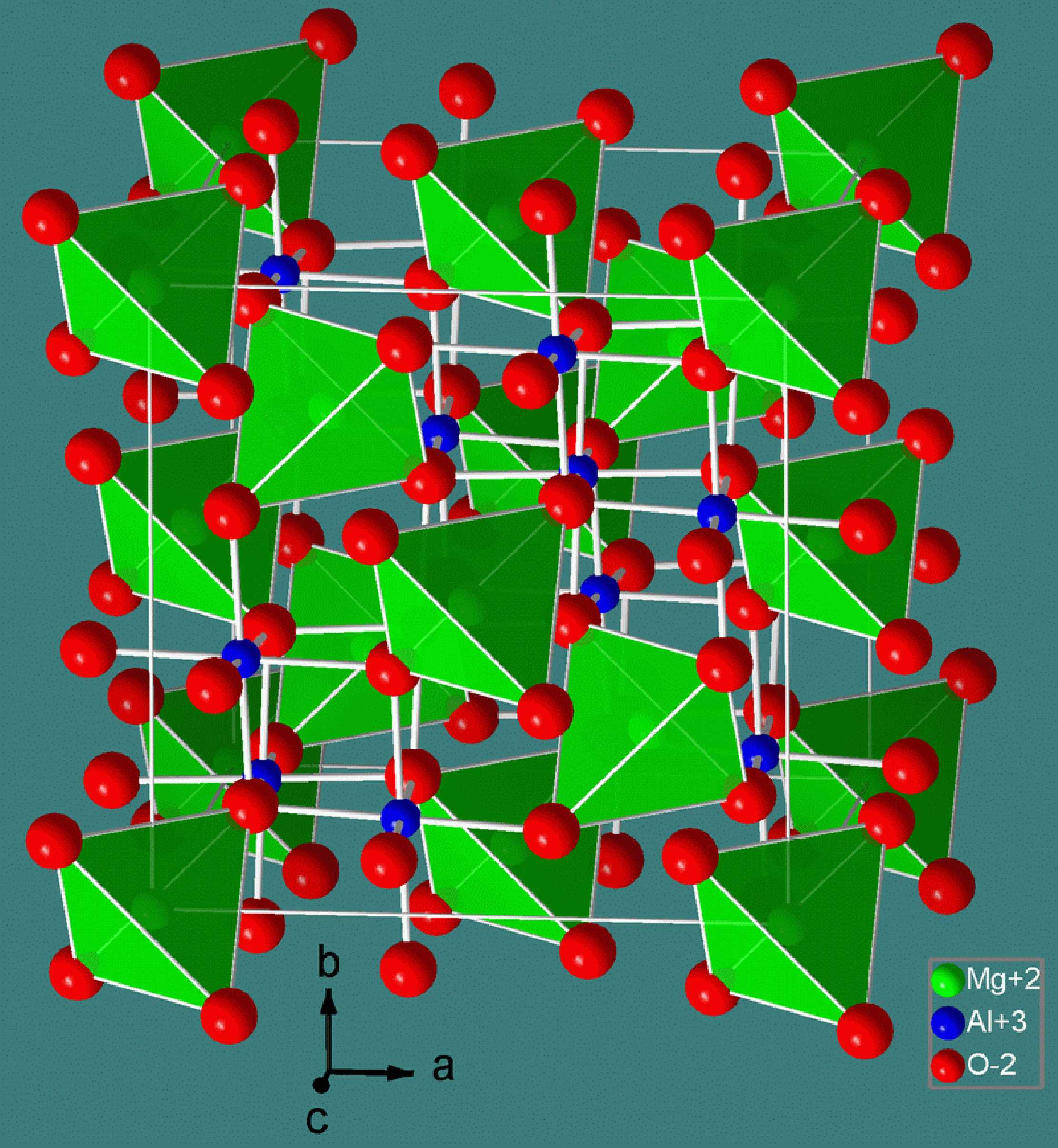 Crystal structure of spinel